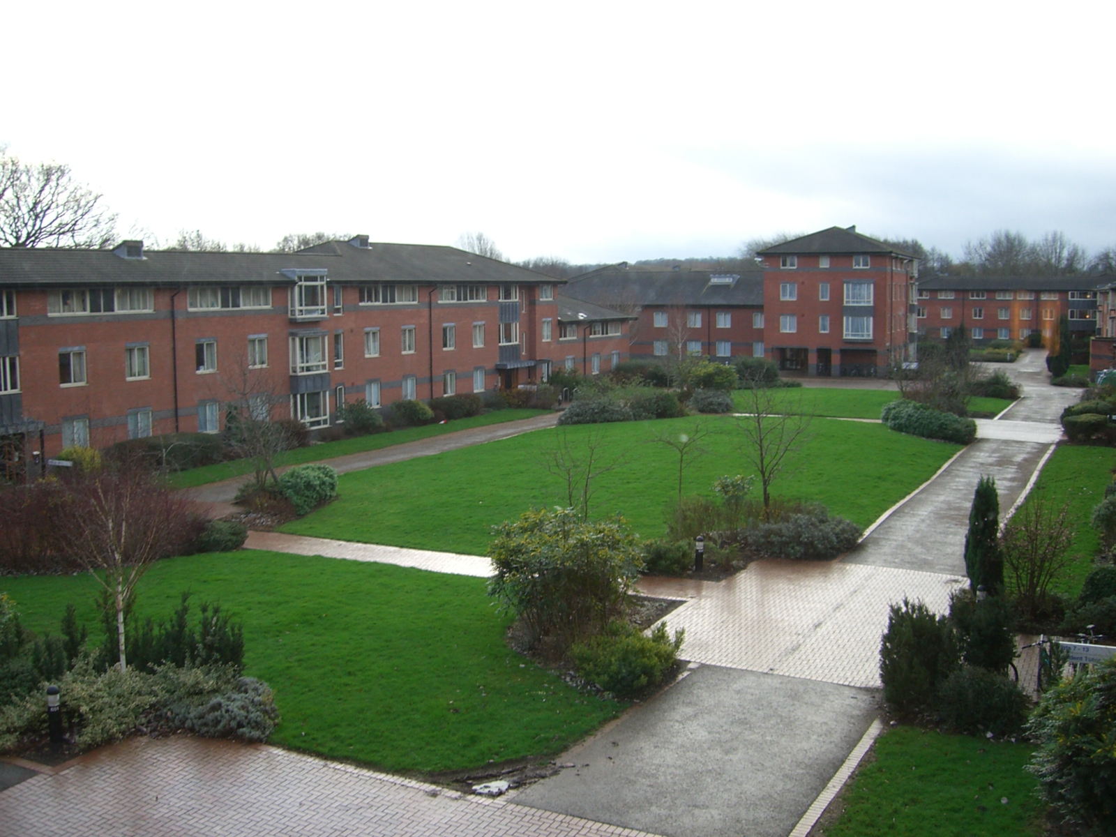 Claycroft student residences at the University of Warwick, England.